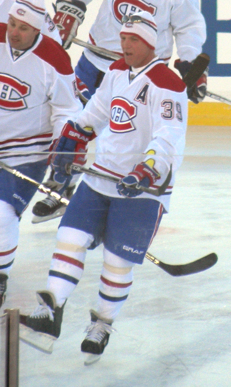 Former NHL player Brian Skrudland at the alumni game as part of the 2011 Heritage Classic in Calgary.